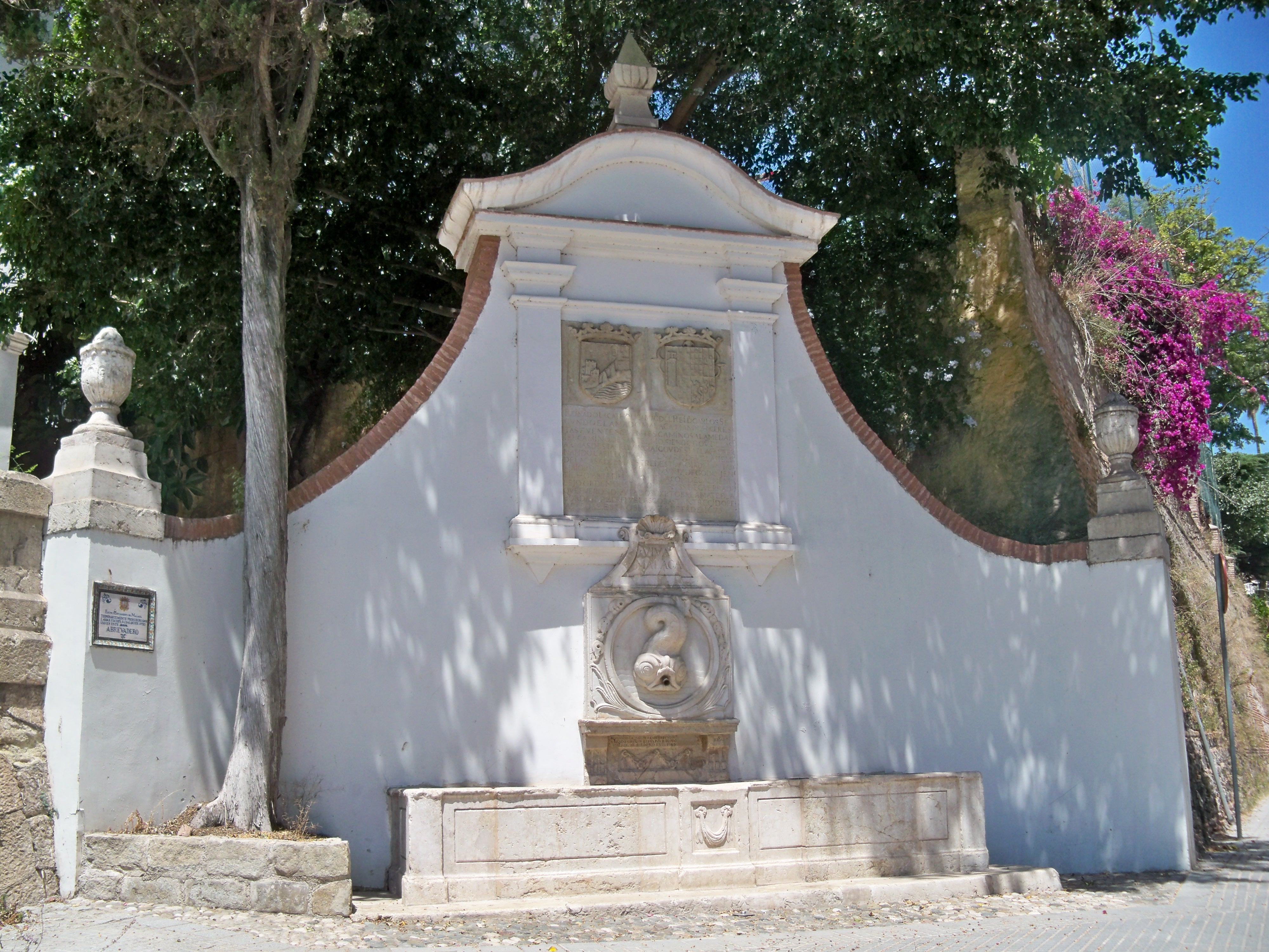 Reding Fountain, a historical fountain located at the end of Príes Avenue, in Málaga, Spain. Built in 1675. In 1806, with Teodoro Reding as mayor of Malaga, was restored to its current appearance, and whose name is in his honor. It has a figurehead in the shape of a fish and a marble plaque indicating the reform carried out. It also has two coats of arms with the city's coat of arms and an inscription about the construction of the Paseo de Reding itself. It was restored in April 2017 after a series of damages, recovering its original structure.